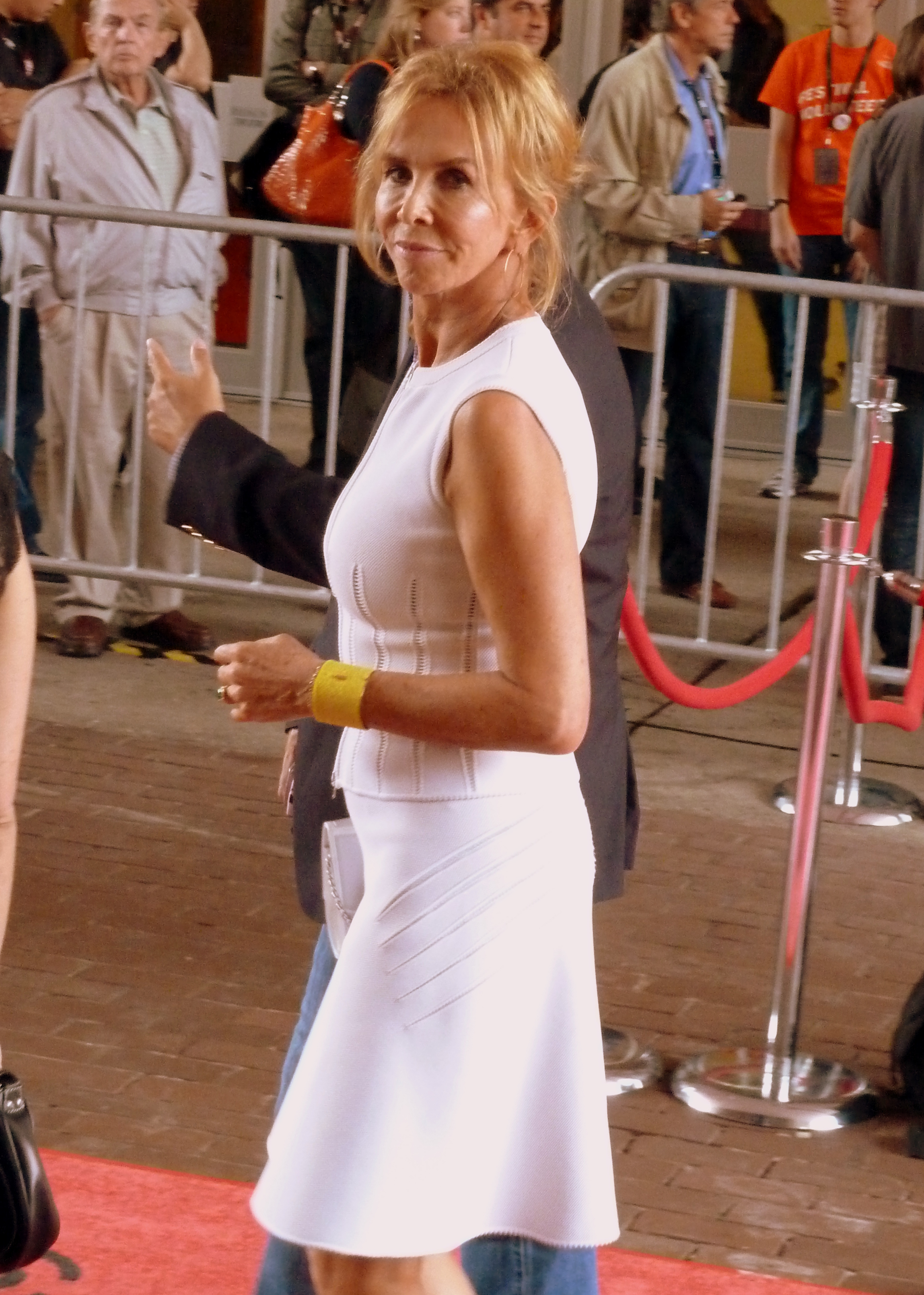 Trudie Styler at the premiere of Imogene, Toronto Film Festival 2012 Sting's wife is a producer of this movie.